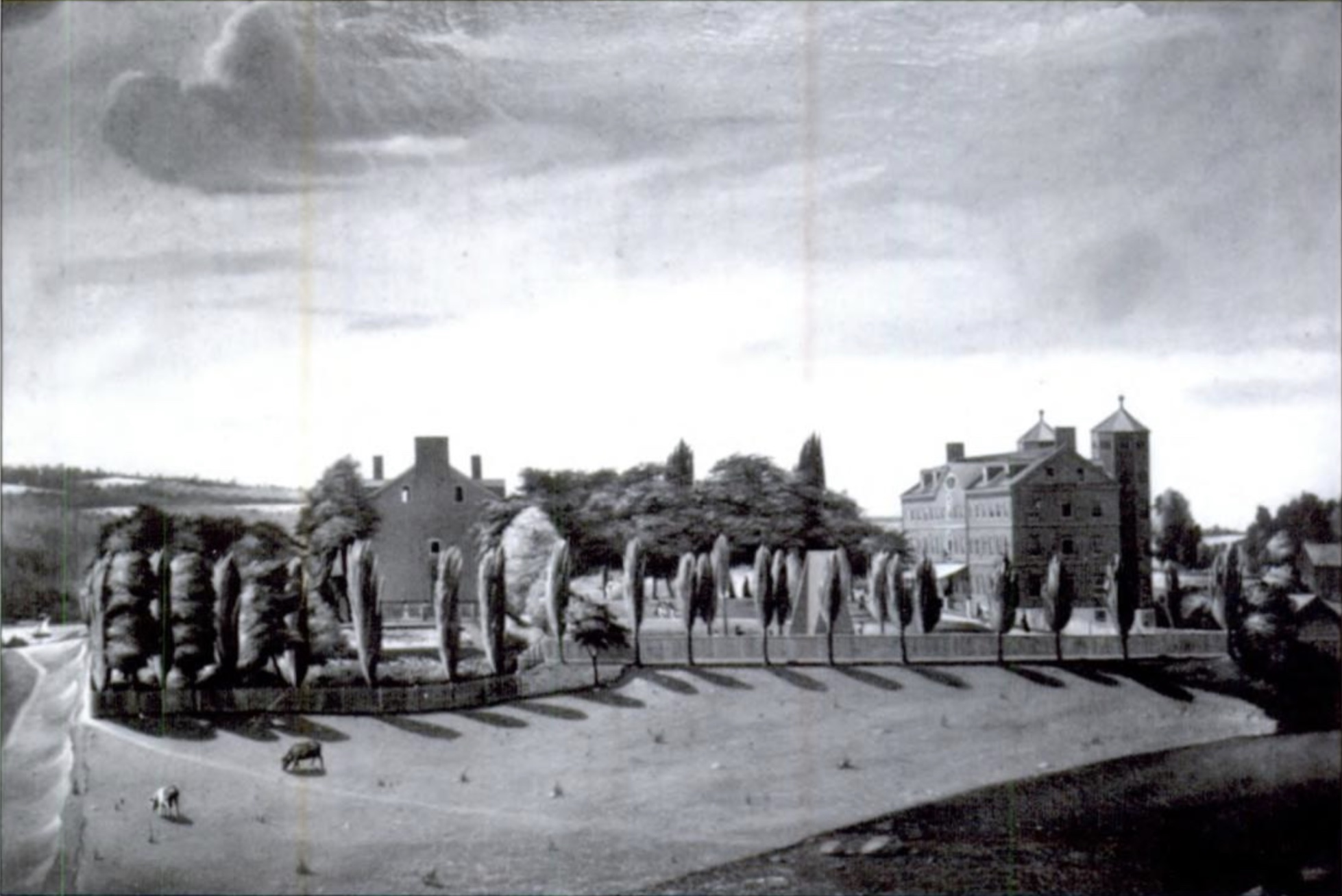 Early depiction of Georgetown University's campus. Caption: "College with Old North Building, From an Old Painting by Simpson."